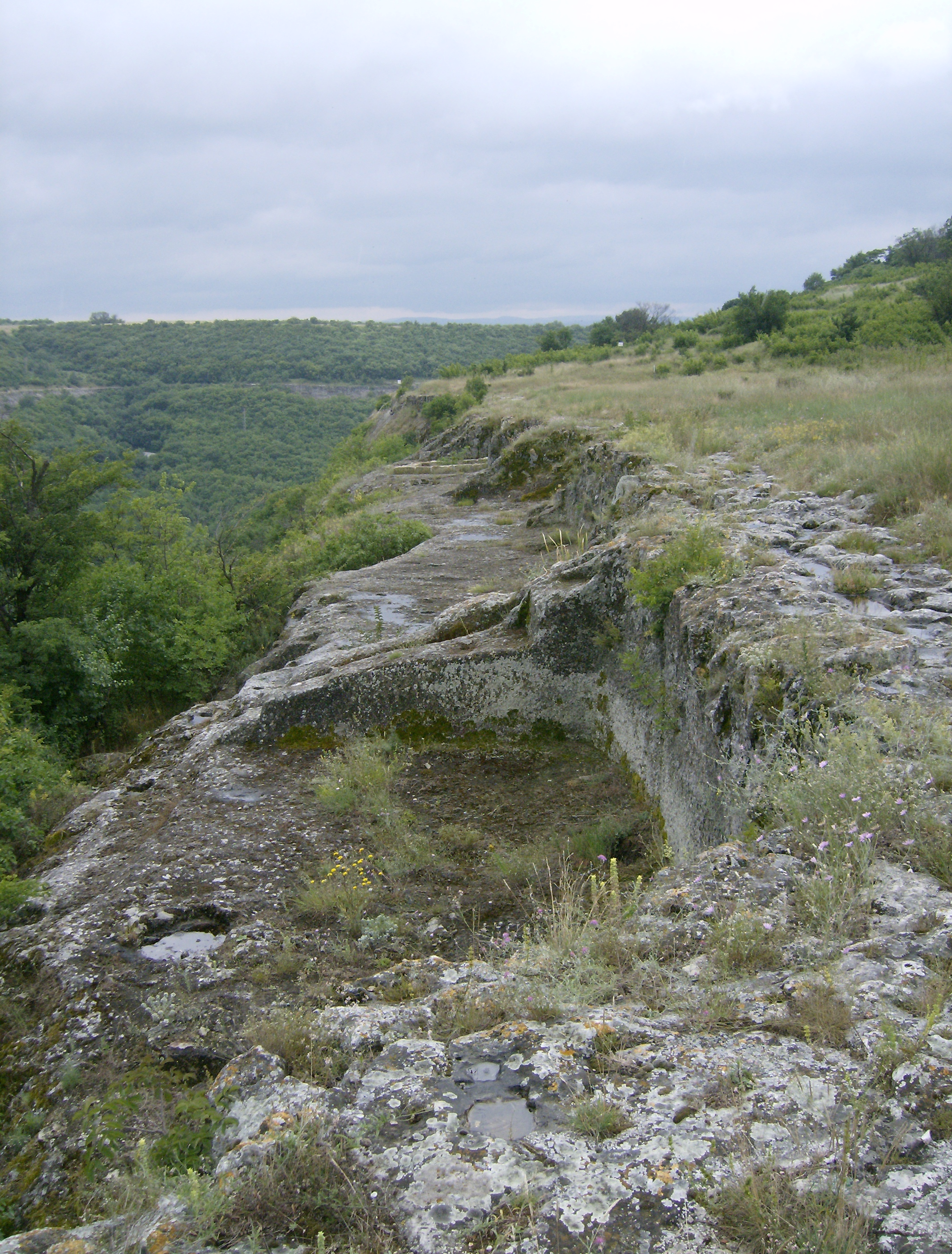 Ovech Fortress